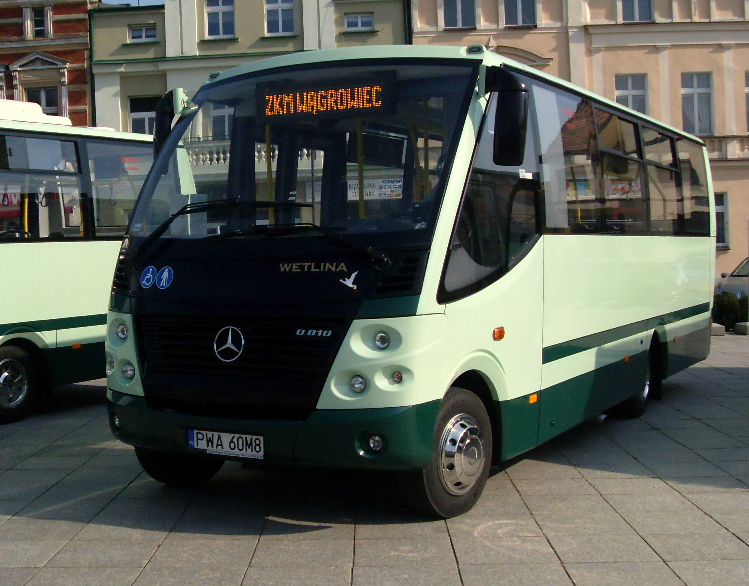 Autosan Wetlina bus (reg. PWA 60M8) with Mercedes-Benz Vario O818 chassis in Wągrowiec, Poland. Built 2011, ZKM Wągrowiec operator.